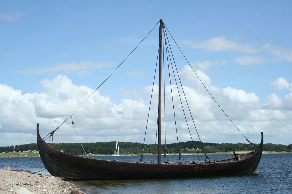 The reconstructed viking ship KRAKA FYR beached in Roskilde Fjord in Denmark